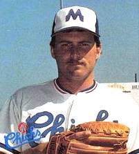 Professional baseball player Jim Campbell